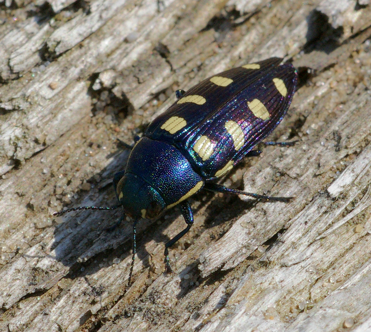 A female beetle of Buprestis octoguttata, ~15 mm long, laying eggs into chinks of dead wood.